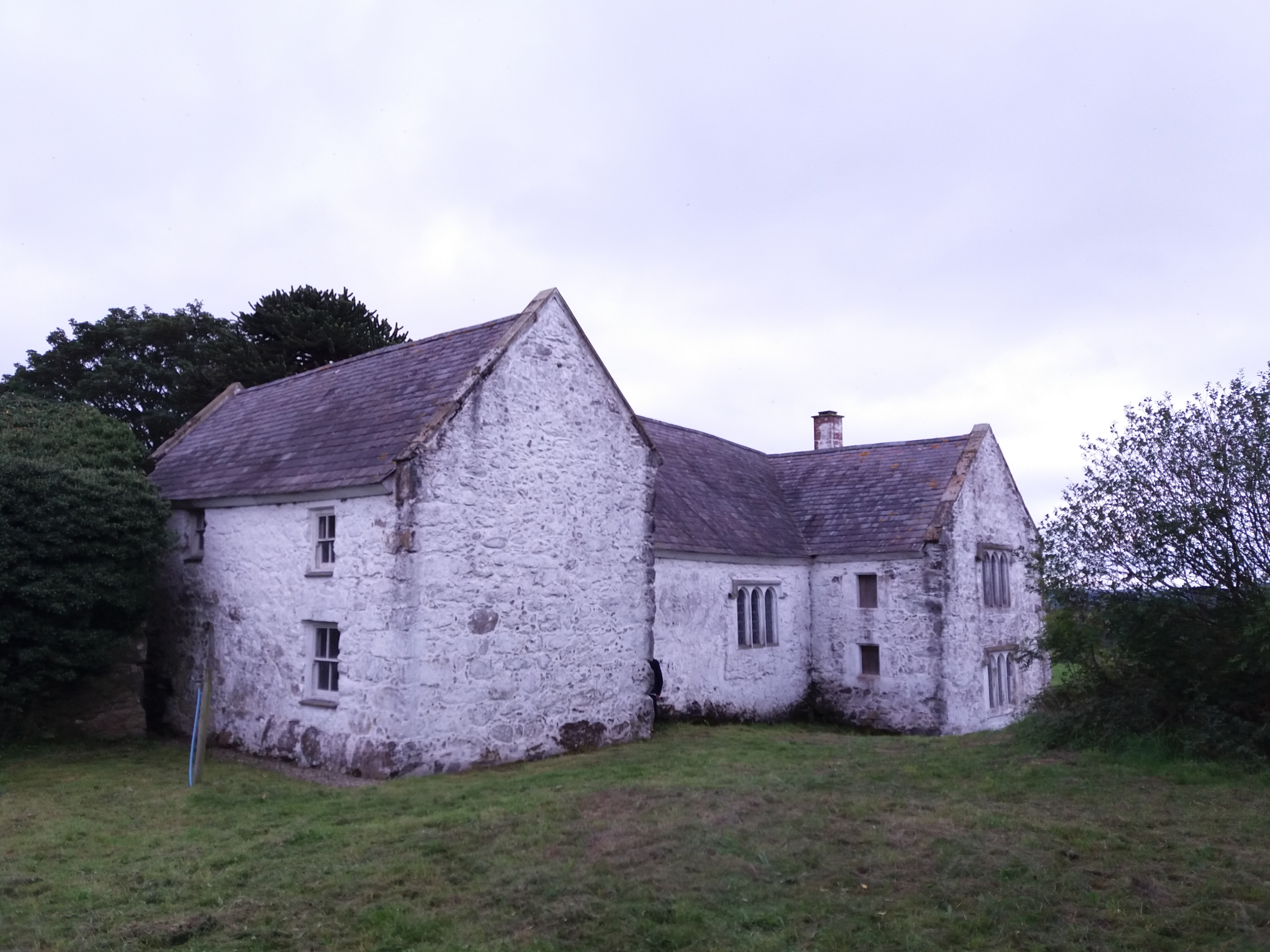 Hafotty Wikidata has entry Q17741011 with data related to this item.